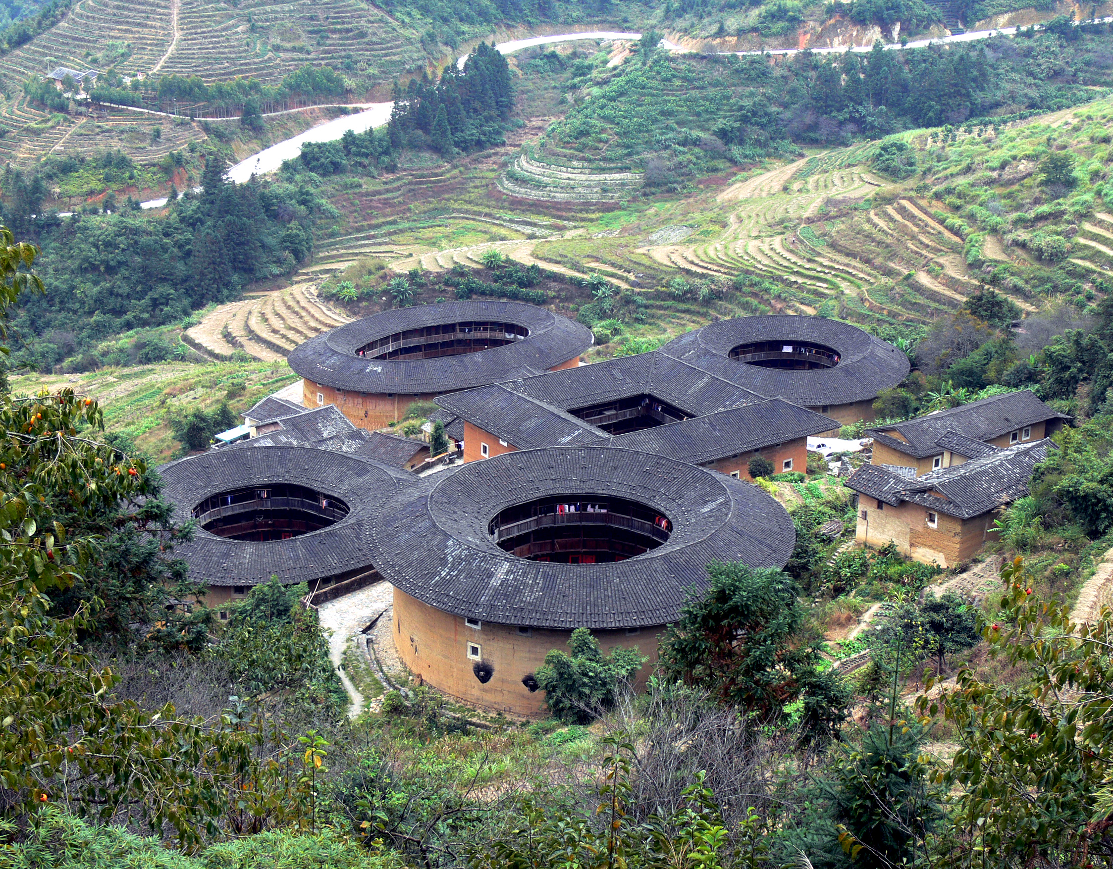 Hakka Earth buildings at Tian Luo Keng, Shuyang county, Fujian.